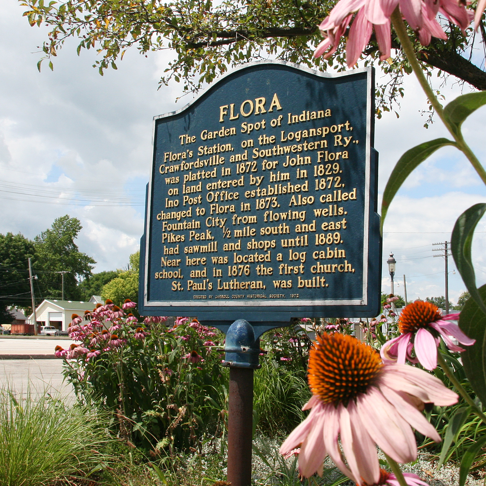 A historical marker in the town of Flora, Indiana. It reads: Flora The Garden Spot of Indiana Flora's Station, on the Logansport, Crawfordsville and Southwestern Ry., was platted in 1872 for John Flora on land entered by him in 1829. Ino Post Office established 1872, changed to Flora in 1873. Also called Fountain City from flowing wells. Pikes Peak, ½ mile south and east had sawmill and shops until 1889. Near here was located a log cabin school, and in 1876 the first church, St. Paul's Lutheran, was built. Erected by Carroll County Historical Society, 1972